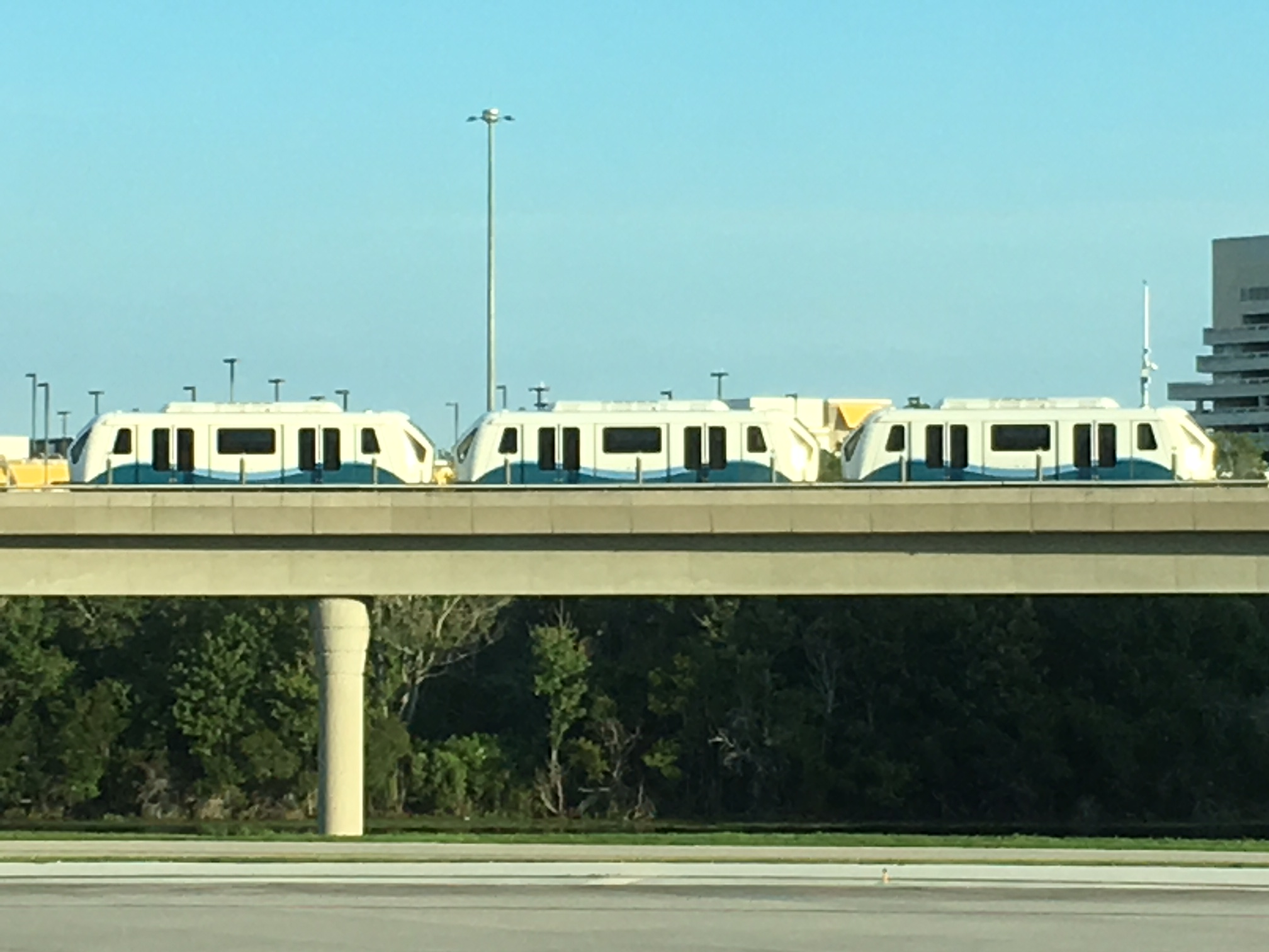 Orlando Airport Intermodal People Mover